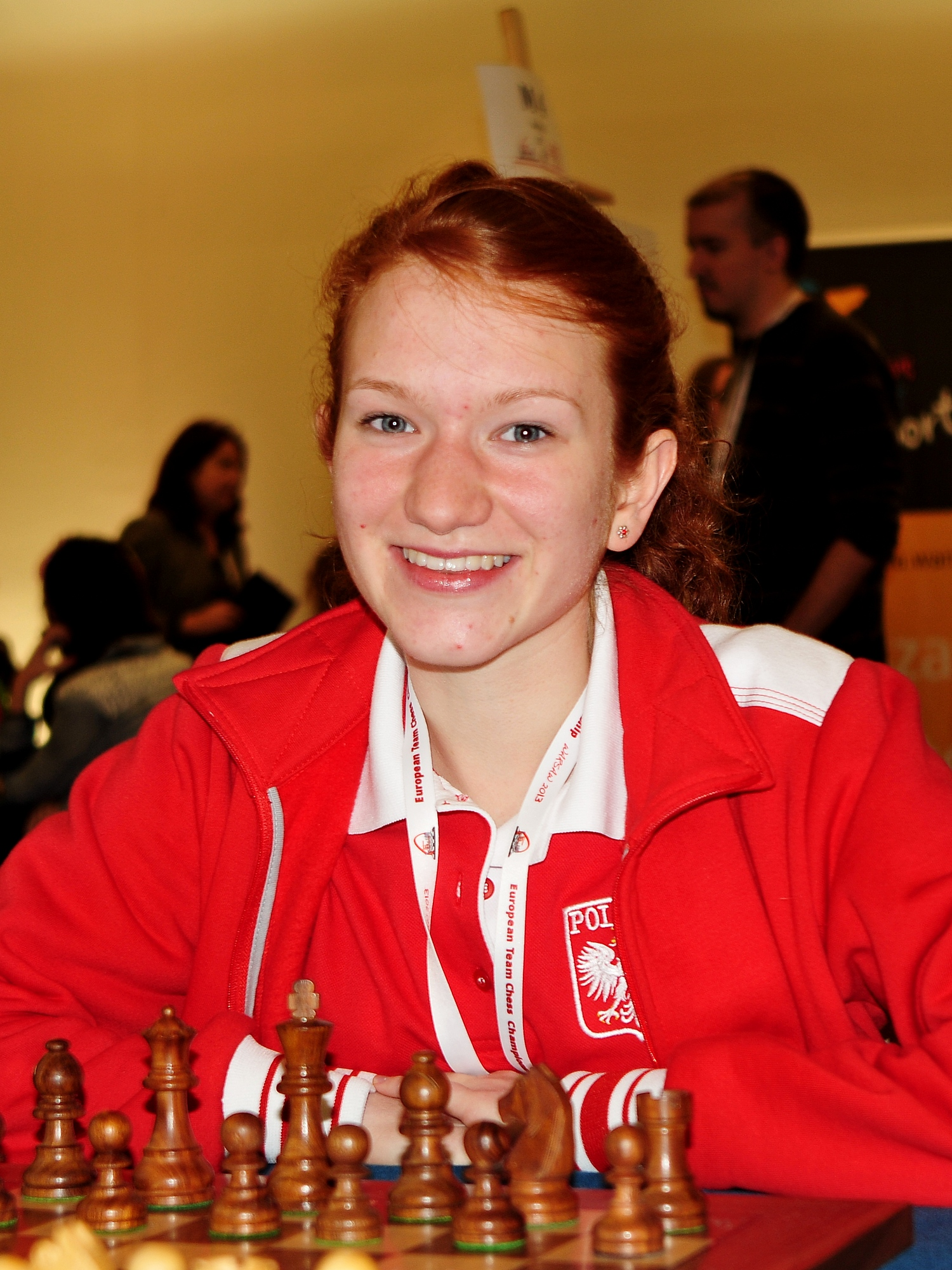 WIM Anna Iwanow, European Chess Team Championship Warsaw 2013